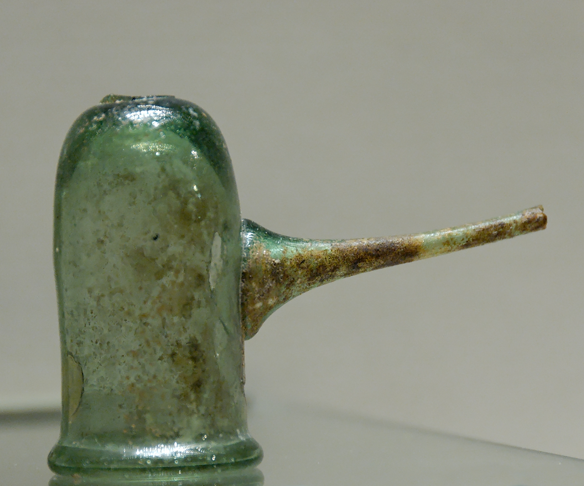 Cupping glass.